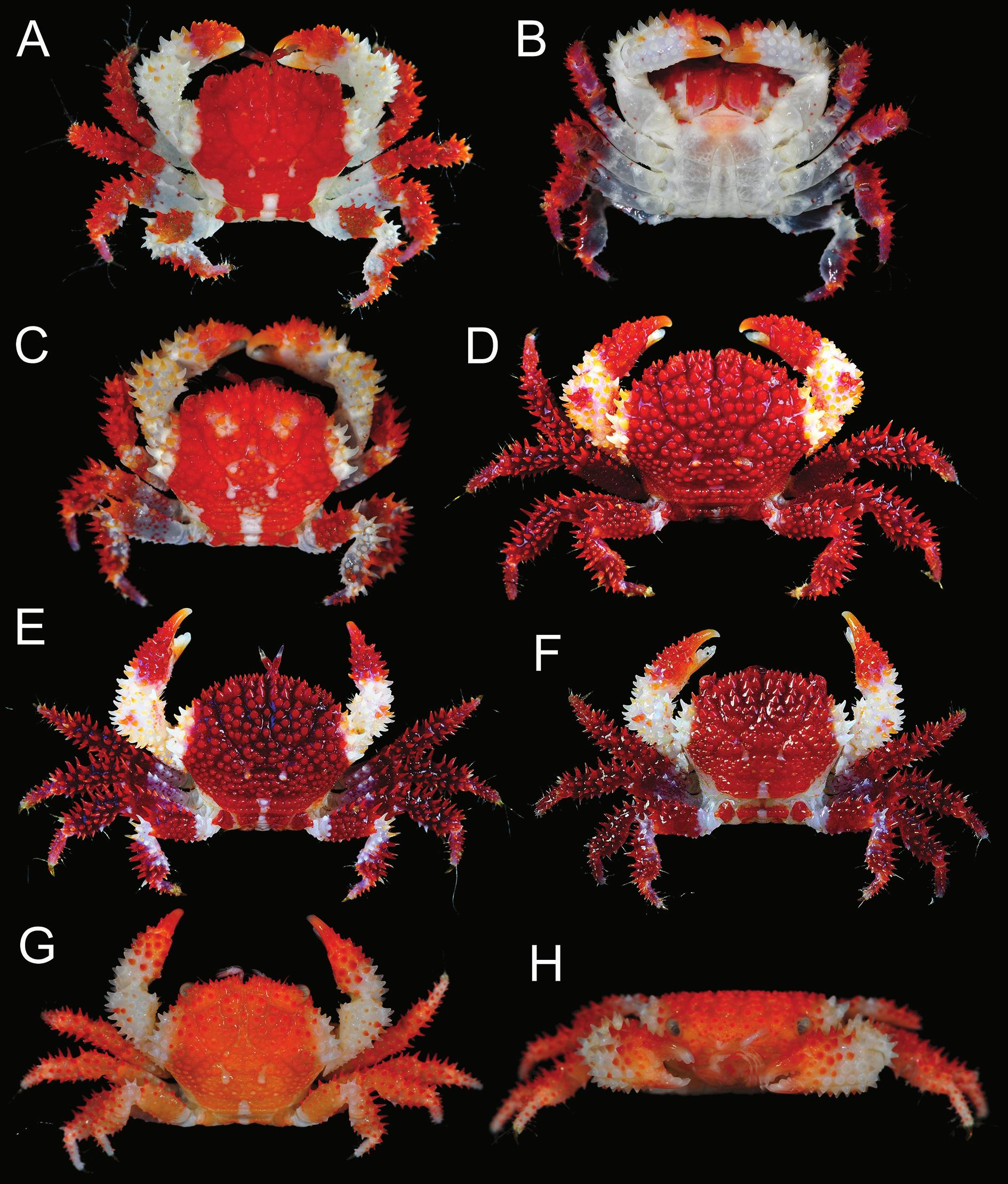 Fig. 1. Actaea grimaldii sp. nov., Papua New Guinea, colours in life. A–B. Paratype, ♂, 5.1 × 3.8 mm (ZRC, ex MNHN IU 2013-920). C. Holotype, ♂, 6.2 × 4.4 mm (MNHN IU 2013-921). D. Paratype, ♀, 10.2 × 7.8 mm (ZRC, ex MNHN IU 2013-1245). E. Paratype, ♀, 8.5 × 6.2 mm (MNHN IU 2013-222). F. Paratype, ♀, 6.7 × 4.9 mm (MNHN IU 2013-759). G–H. Paratype, ♀, 6.4 × 4.9 mm (ZRC, ex MNHN IU 2013-1255). A–G, dorsal views of habitus; B, ventral view of habitus; H, frontal view of habitus.